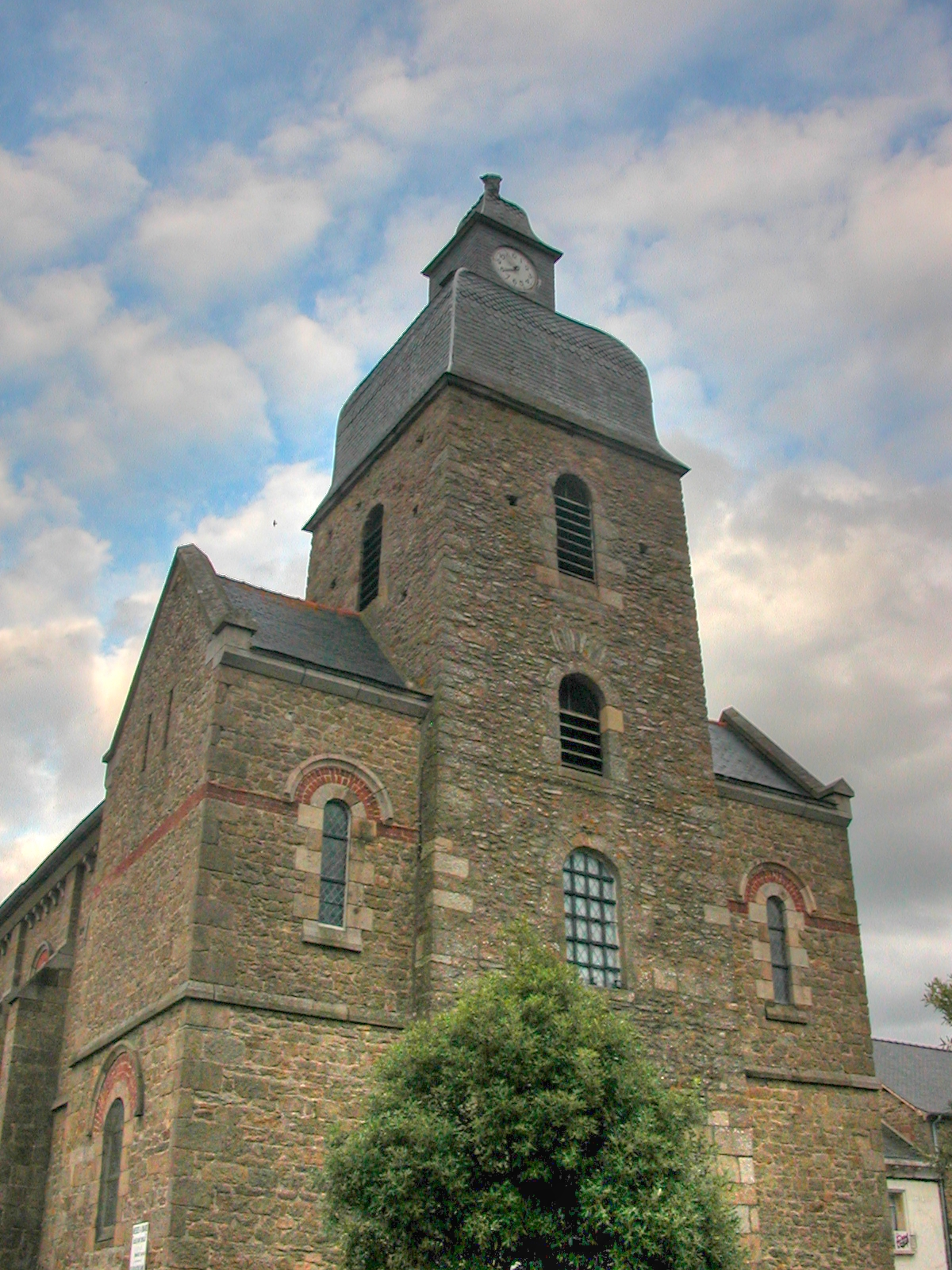 Saint-Énogat church in Dinard